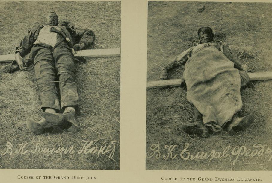 Photograph of the bodies of Duke John and Duchess Elizabeth